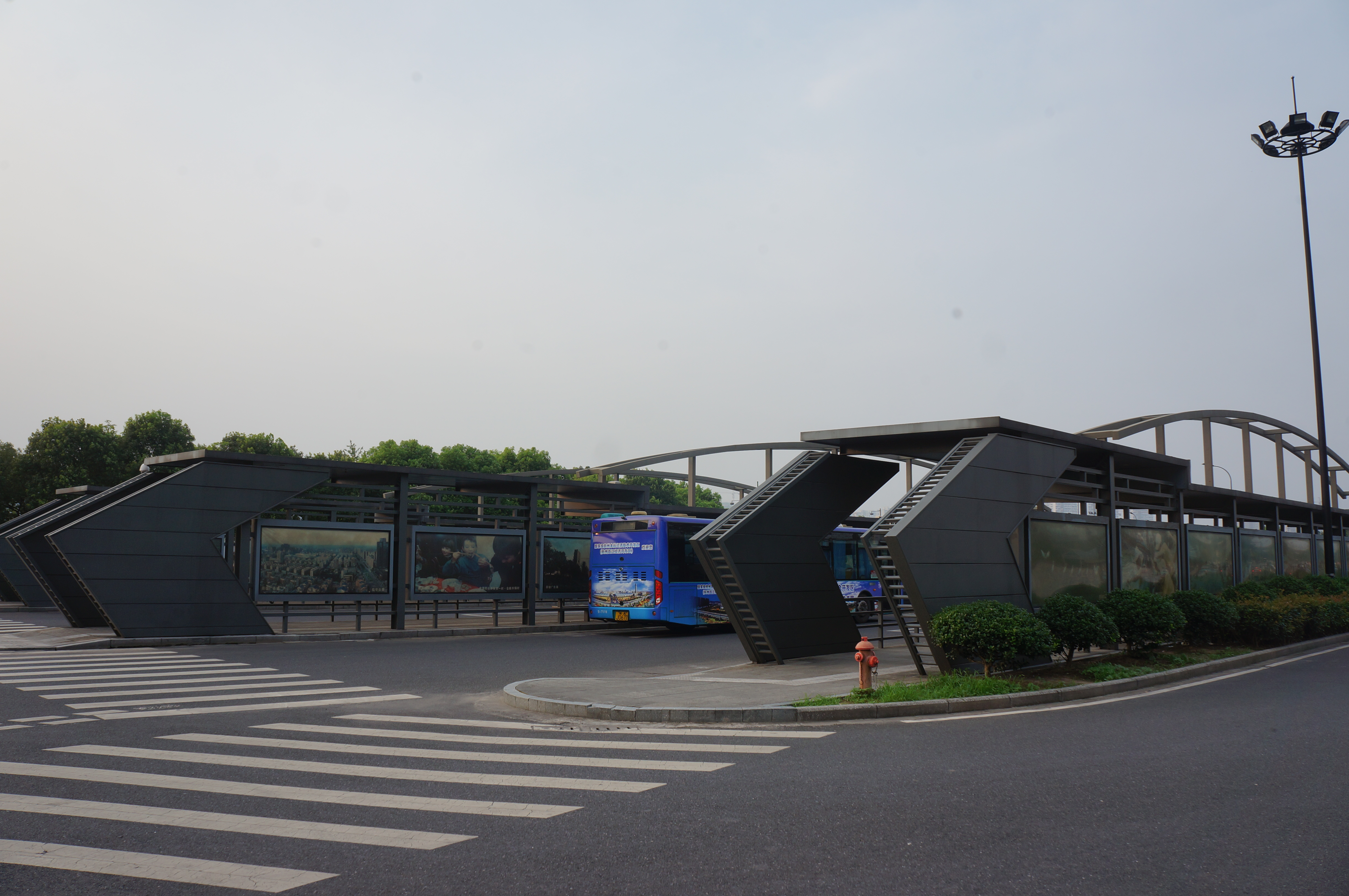 201607 Bus Terminal near Yuhang Station